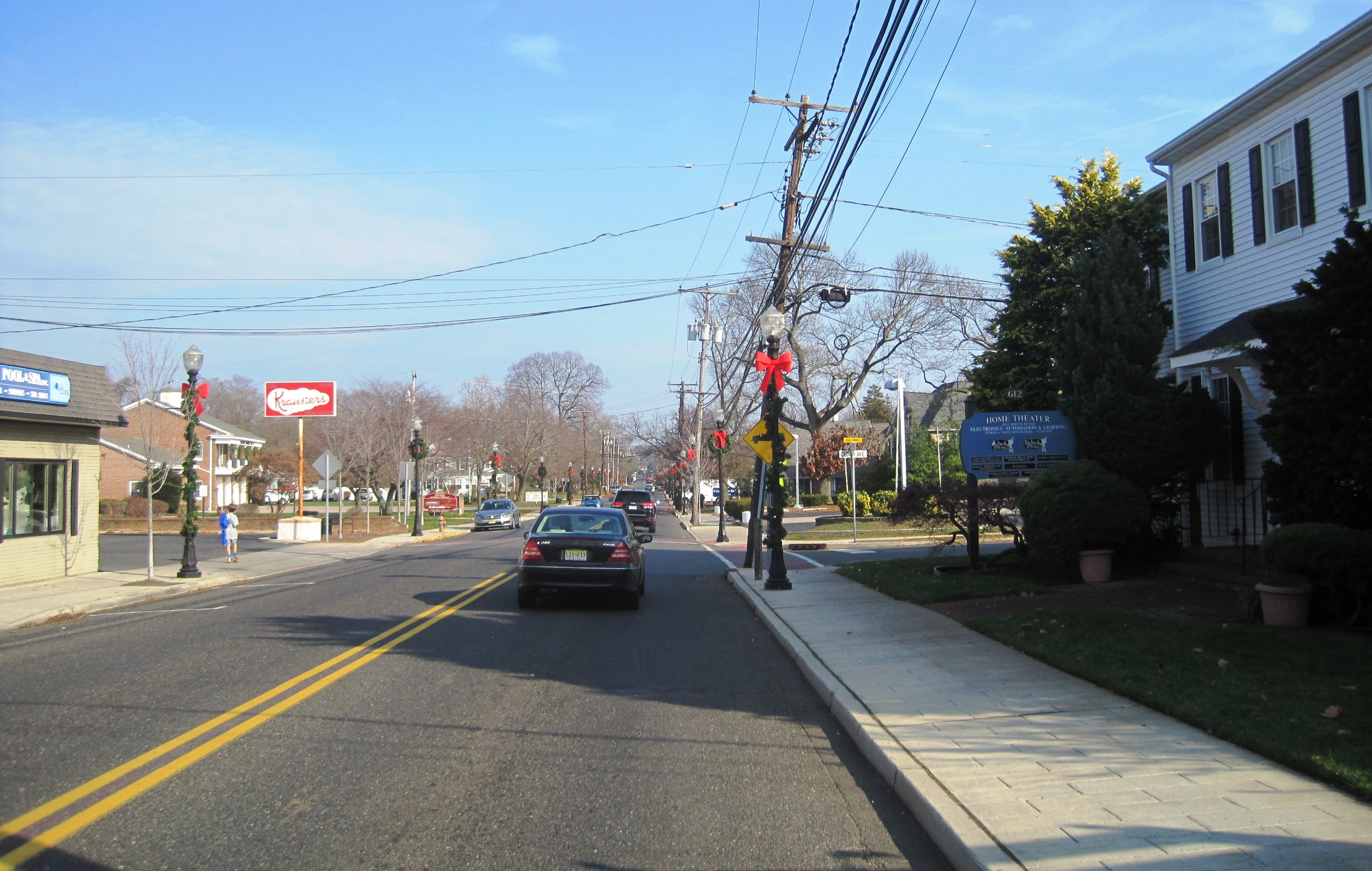 Photo of the central business district of Fair Haven, New Jersey. Photo taken along eastbound River Road (County Route 10) at Cedar Avenue.